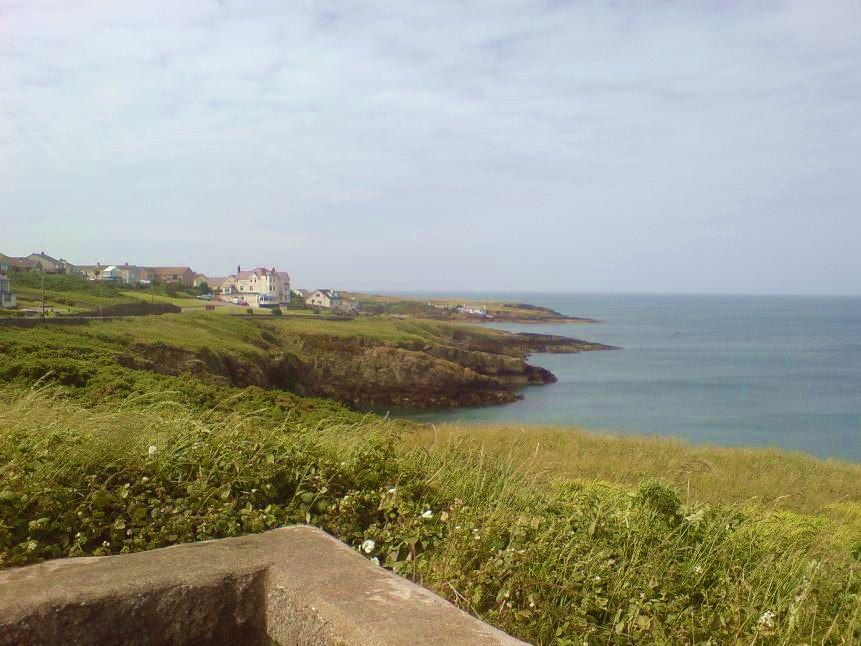 A photo of Bull Bay